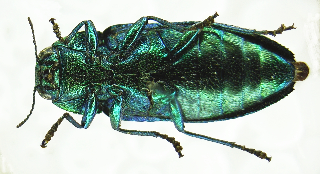 Underside of Ovalisia (Scintillatrix) rutilans